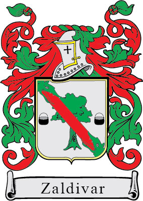 Escudo apellido Zaldivar